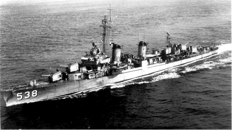 The U.S. Navy destroyer USS Stephen Potter (DD-538) underway at sea, in the 1950s.